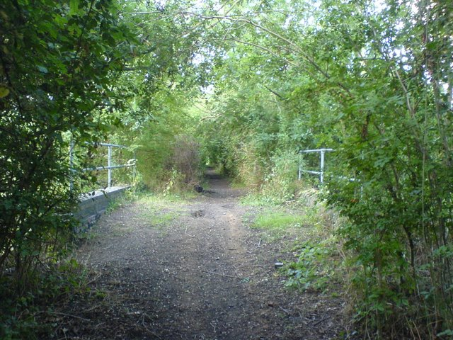 Former Coley Branch Line. This line closed in about 1983.